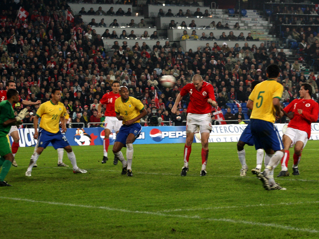 Header by Senderos, St. Jakob Stadion, Basel (Switzerland), Switzerland - Brasil 1:2